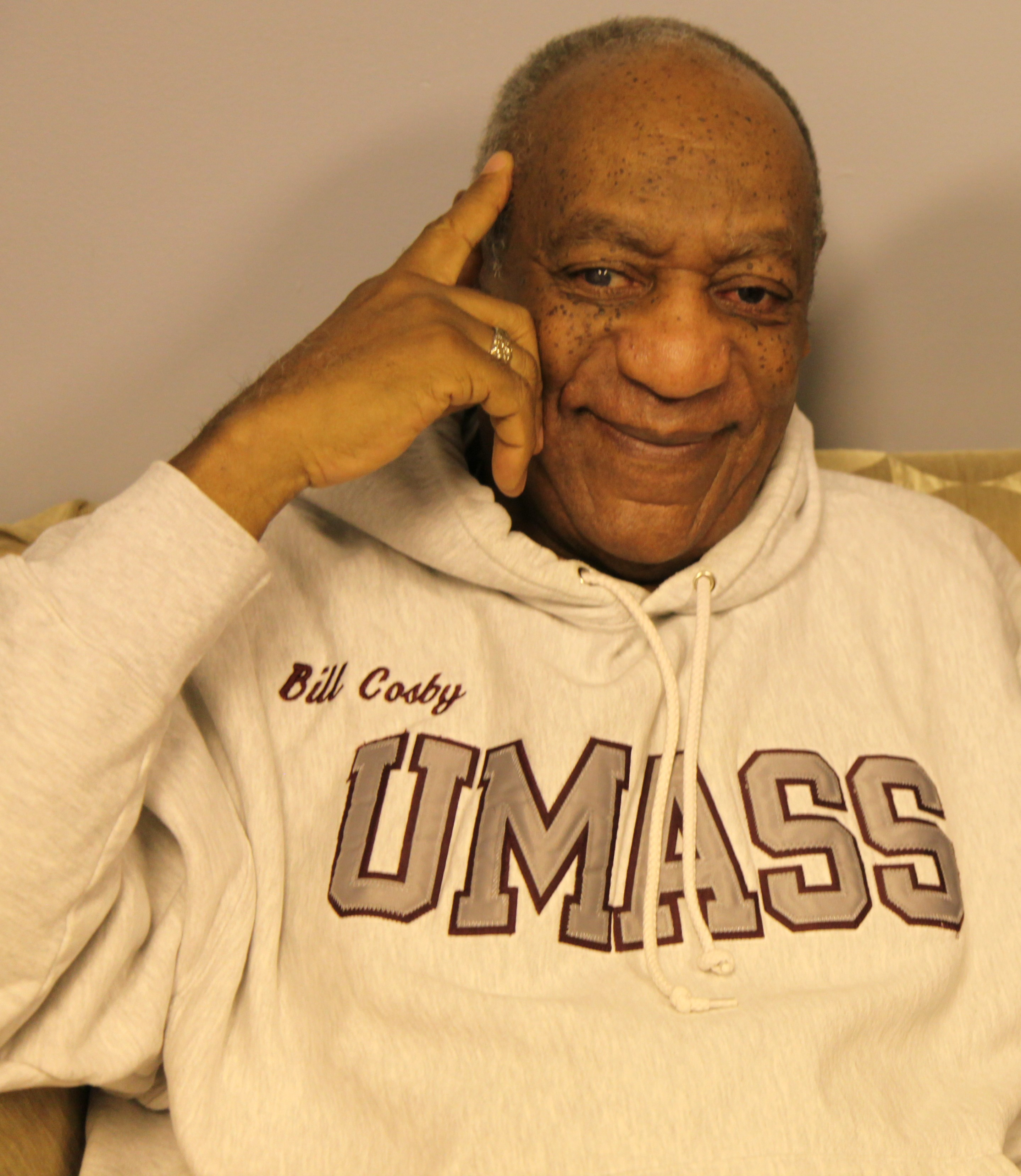 Sen. Coons pitched Dr. Bill Cosby on the American Dream Accounts Act while visiting with him at the Joshua Harvest Church in Wilmington. The goal of the American Dream Accounts Act is to help at-risk kids get to college.